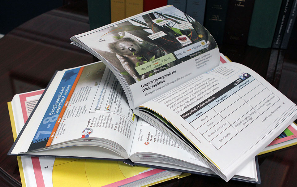 Some books formatted according to the large-print standards.